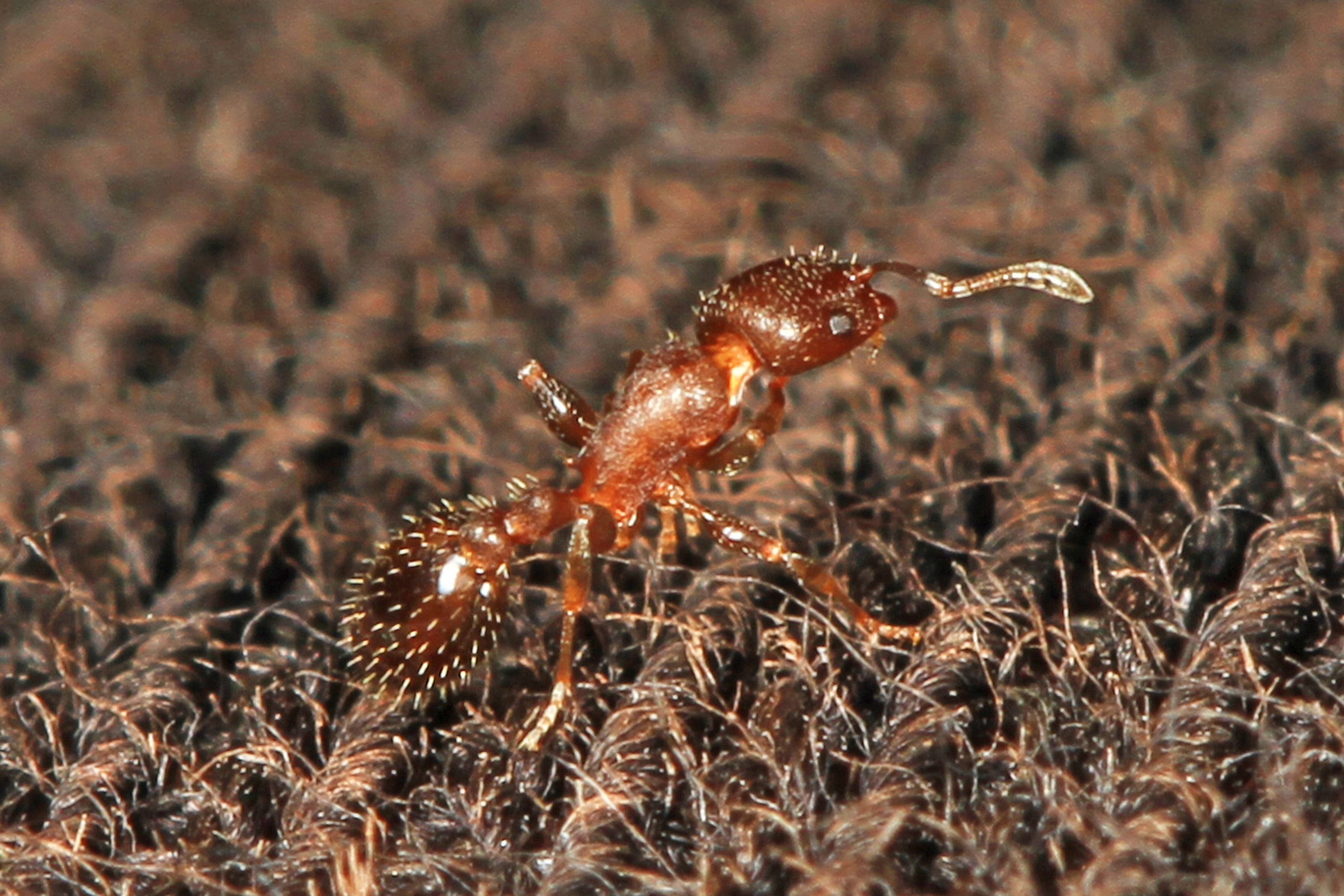 Acorn Ant - Temnothorax schaumii, Smithsonian Environmental Research Center, Edgewater, Maryland. 6/6/2015 - Anne Arundel County ID by Bugguide